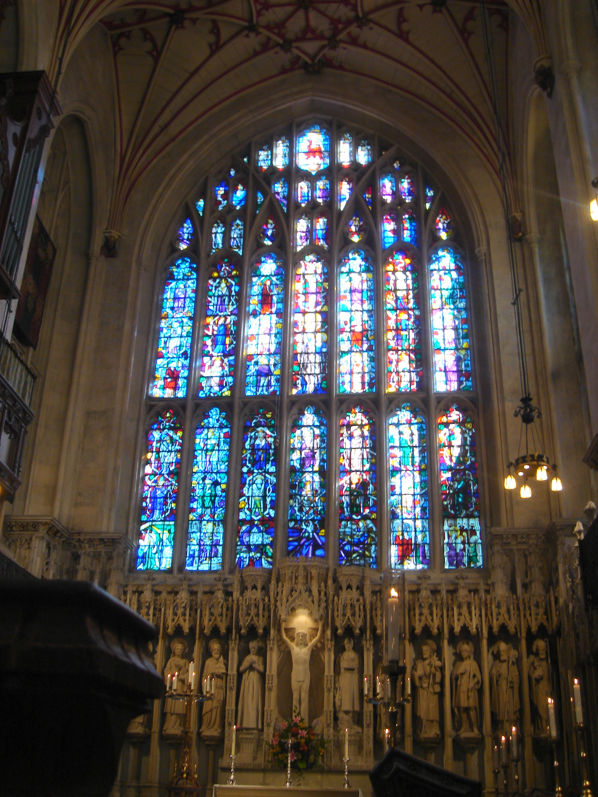 East Window, Winchester College Chapel, Winchester, Hampshire, UK